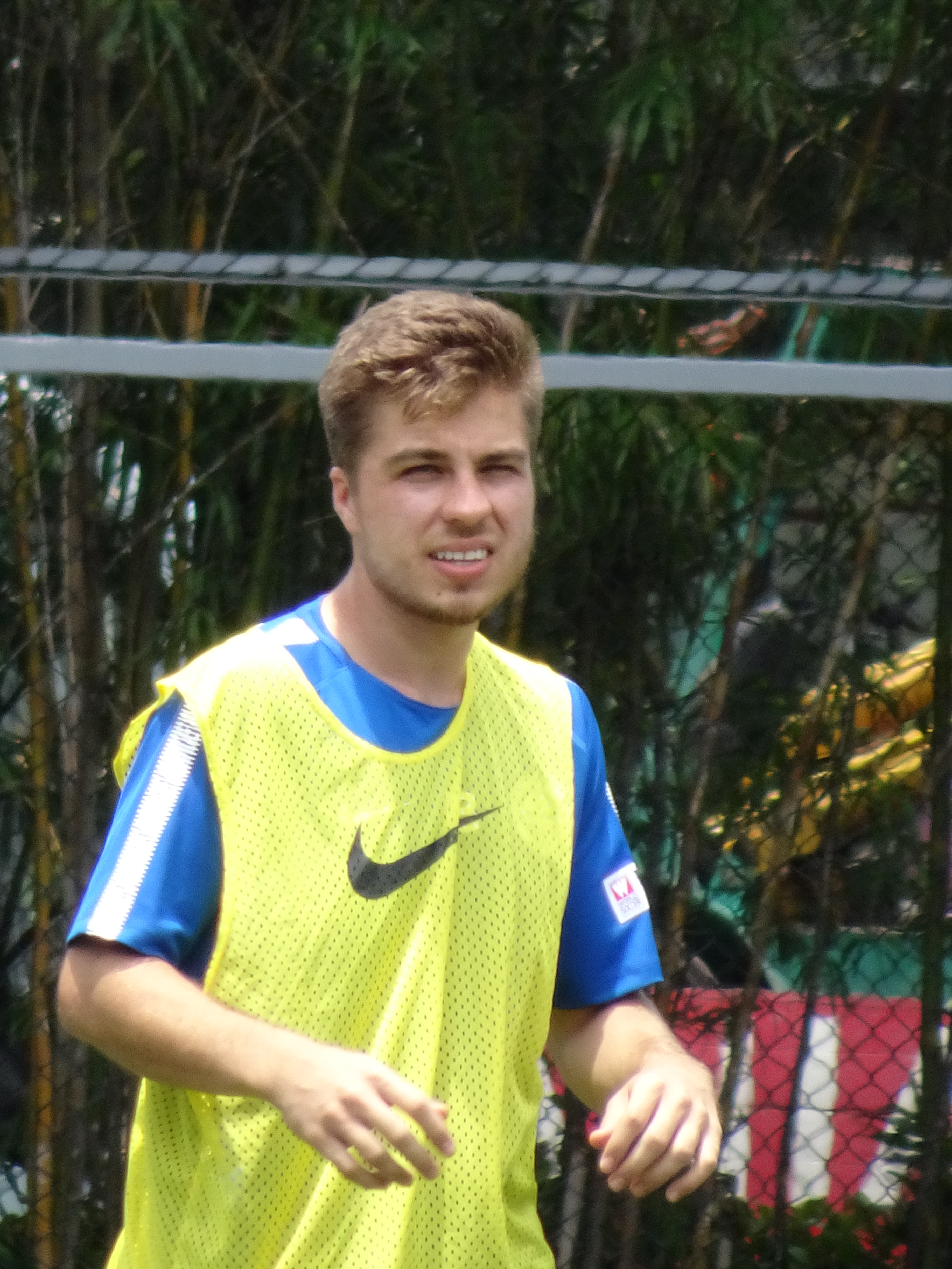 Igor Sartori (2 Aug 2017, Friendly match, Tai Po FC vs Rangers, Kowloon Bay Park) 中文（香港）: 沙杜尼 (2 Aug 2017, 熱身賽, 大埔 vs 流浪, 九龍灣公園)